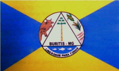 Flag of the municipality of Buritis, in the Minas Gerais, Brazil.